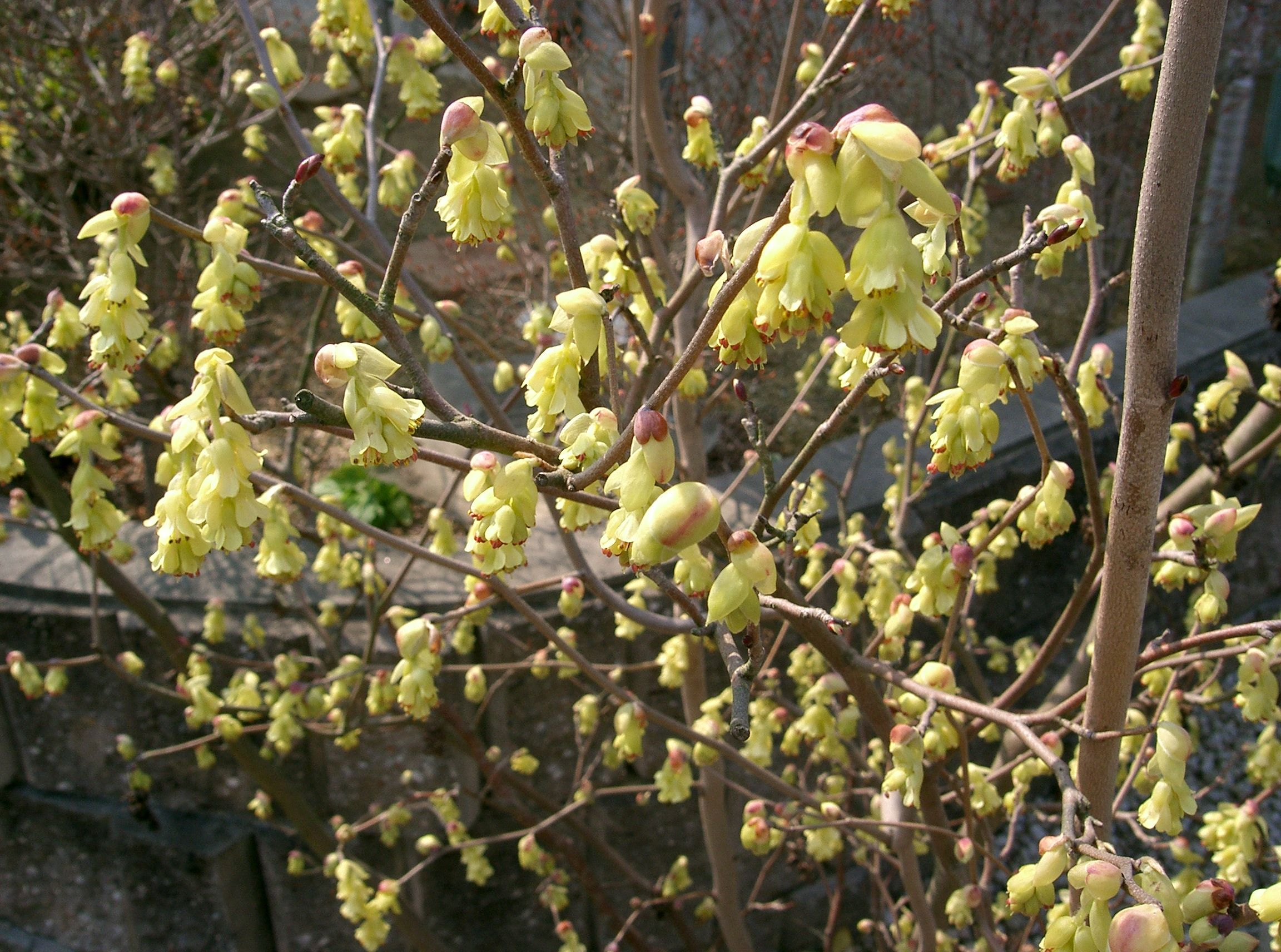 Scientific name Corylopsis spicata